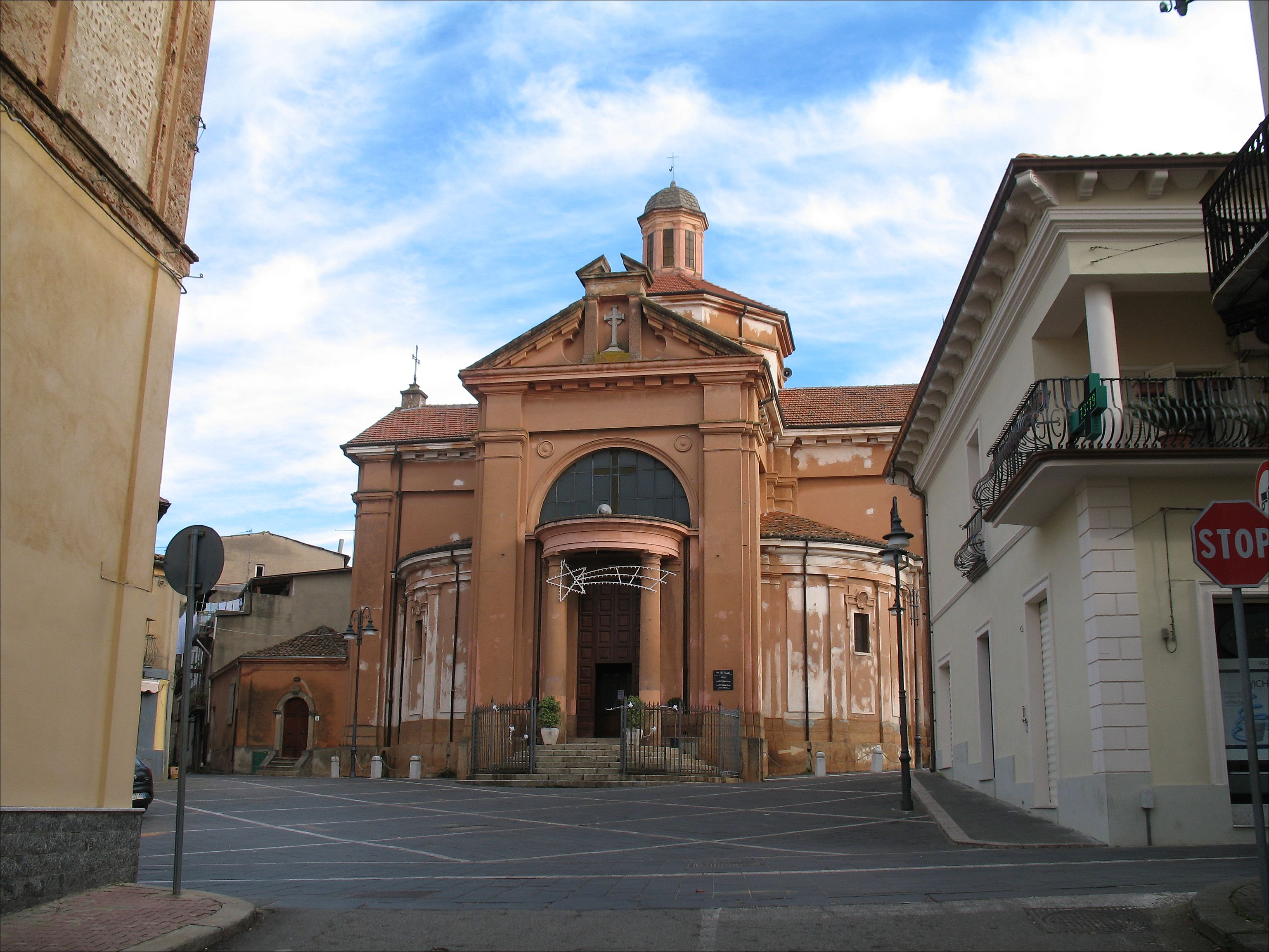 Chiesa Madre Foto 2011